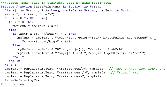 Screenshot of a typical Visual Basic function, demonstrates a loop and conditional statement. Uploaded to be used in Topic:Visual Basic. This function converts tags in wiki articles to HTML.